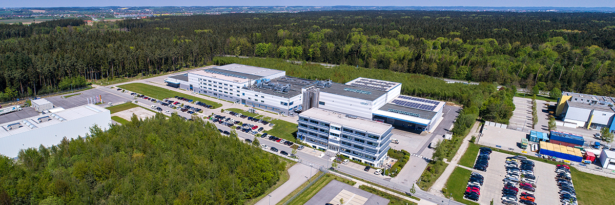 KRAIBURG TPE production site in Waldkraiburg, Germany